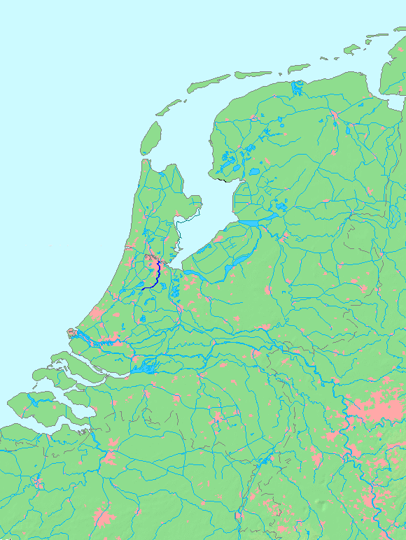 Location of a waterway (river/canal) in the Netherlends